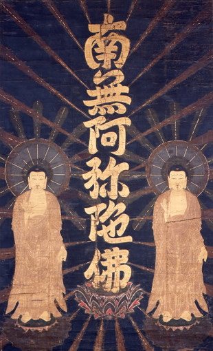 Six-character Name with Images of Sakyamuni and Amida, Manpukuji, Osaka, Japan